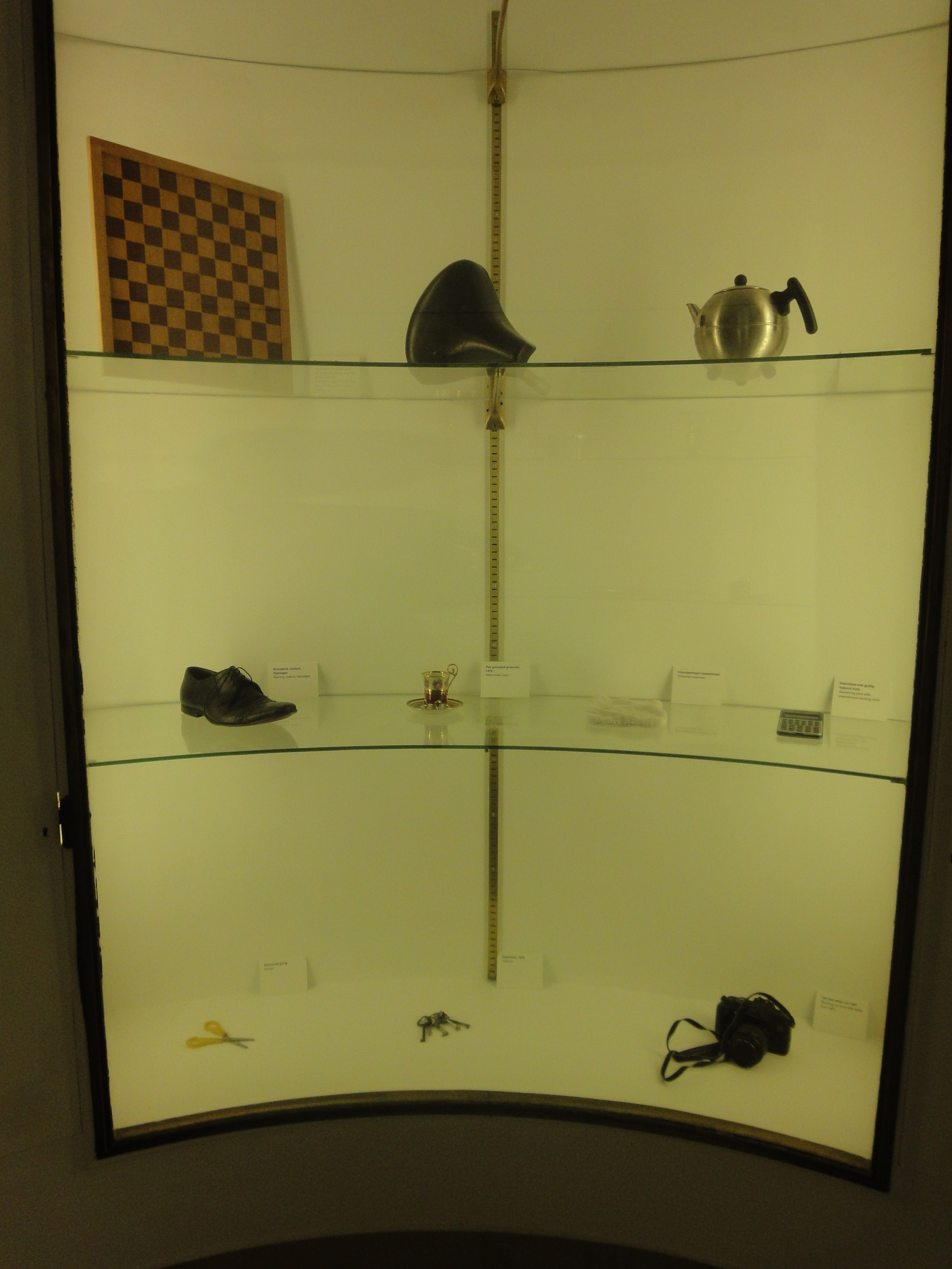 Opening of the Boijmans Museum excibition 'Boijmans in Staat van Verwarring' Personality rights warning Although this work is freely licensed or in the public domain, the person(s) shown may have rights that legally restrict certain re-uses unless those depicted consent to such uses. In these cases, a model release or other evidence of consent could protect you from infringement claims.